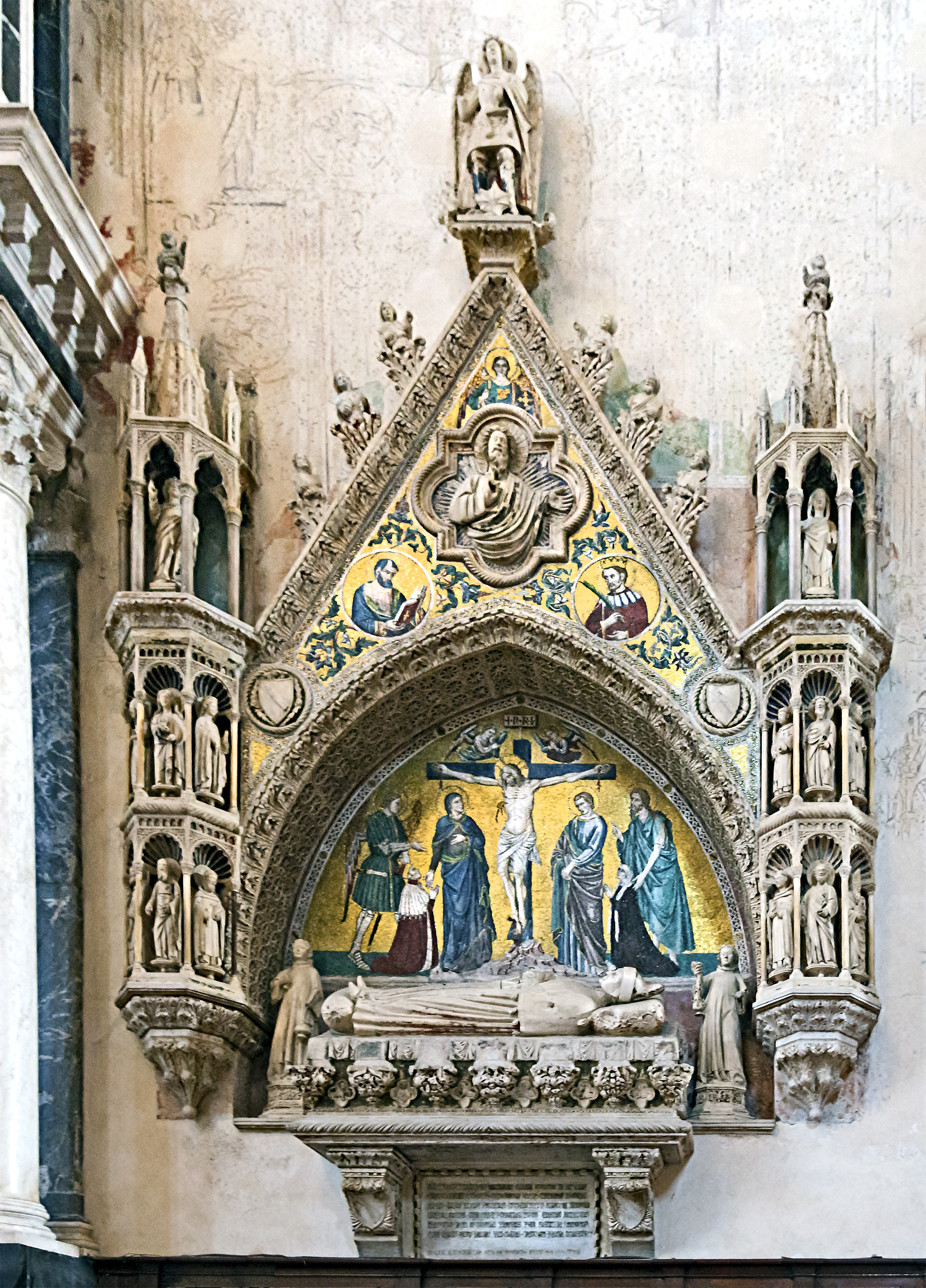 Santi Giovanni e Paolo in Venice. Trinity Chapel – Tomb of the Doge Michele Morosini. The recumbent figure of the Doge is the work of the workshop of the brothers Della Masegne. The Mosaic is a Tuscan fifteenth work, it represents a crucifixion with the Doge and his wife kneeling.